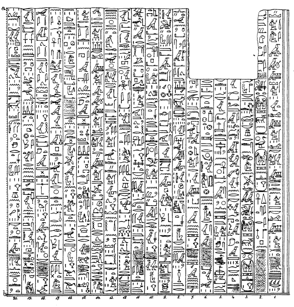 Great Karnak inscription (first part) - plate 52 from Mariette Bey